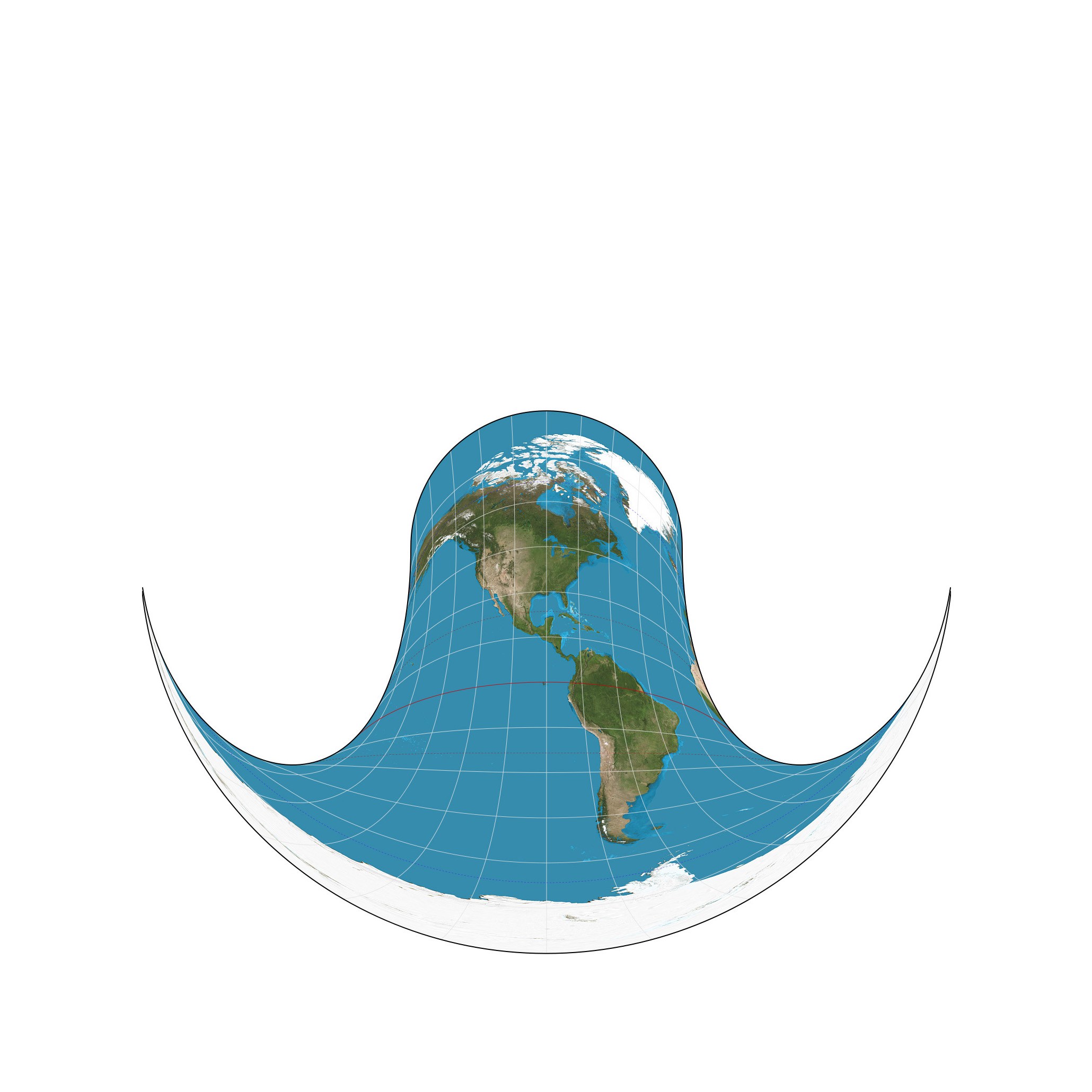 The front hemisphere of the Hammer retroazimuthal projection. 15° graticule; center point at 90°W, 45°N. Imagery is a derivative of NASA’s Blue Marble summer month composite with oceans lightened to enhance legibility and contrast. Image created with the Geocart map projection software.